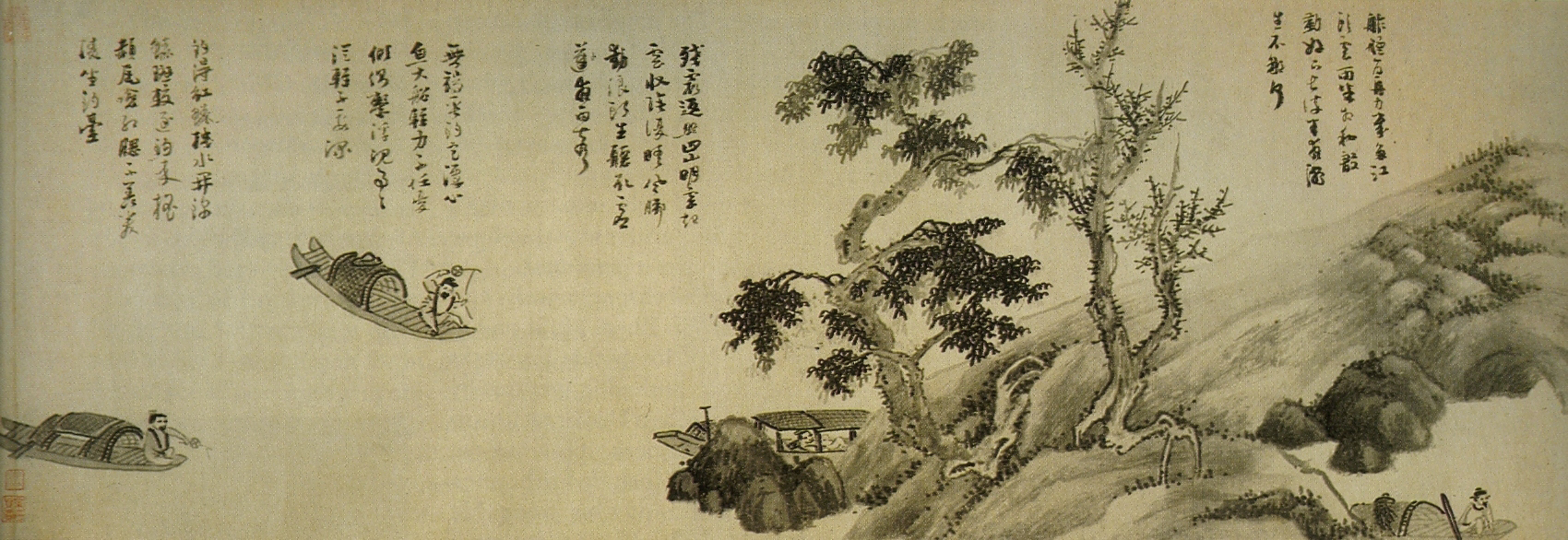 Wu_Zhen._Fishermen._section.32,5x562,2cm.__ca._1340._Freer